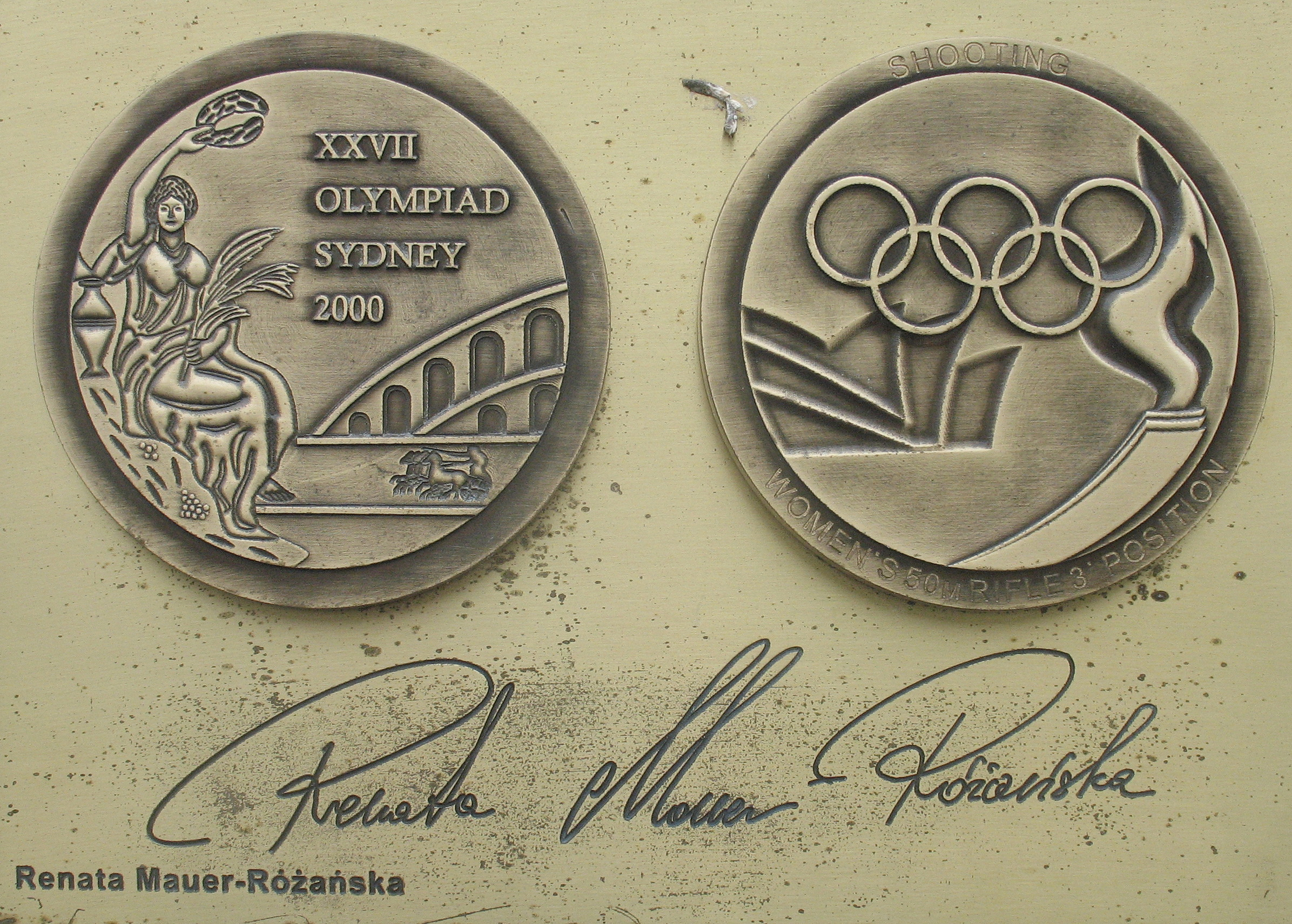 Renata Mauer Rozanska medal & autograph in Avenue of Sport Stars Dziwnów